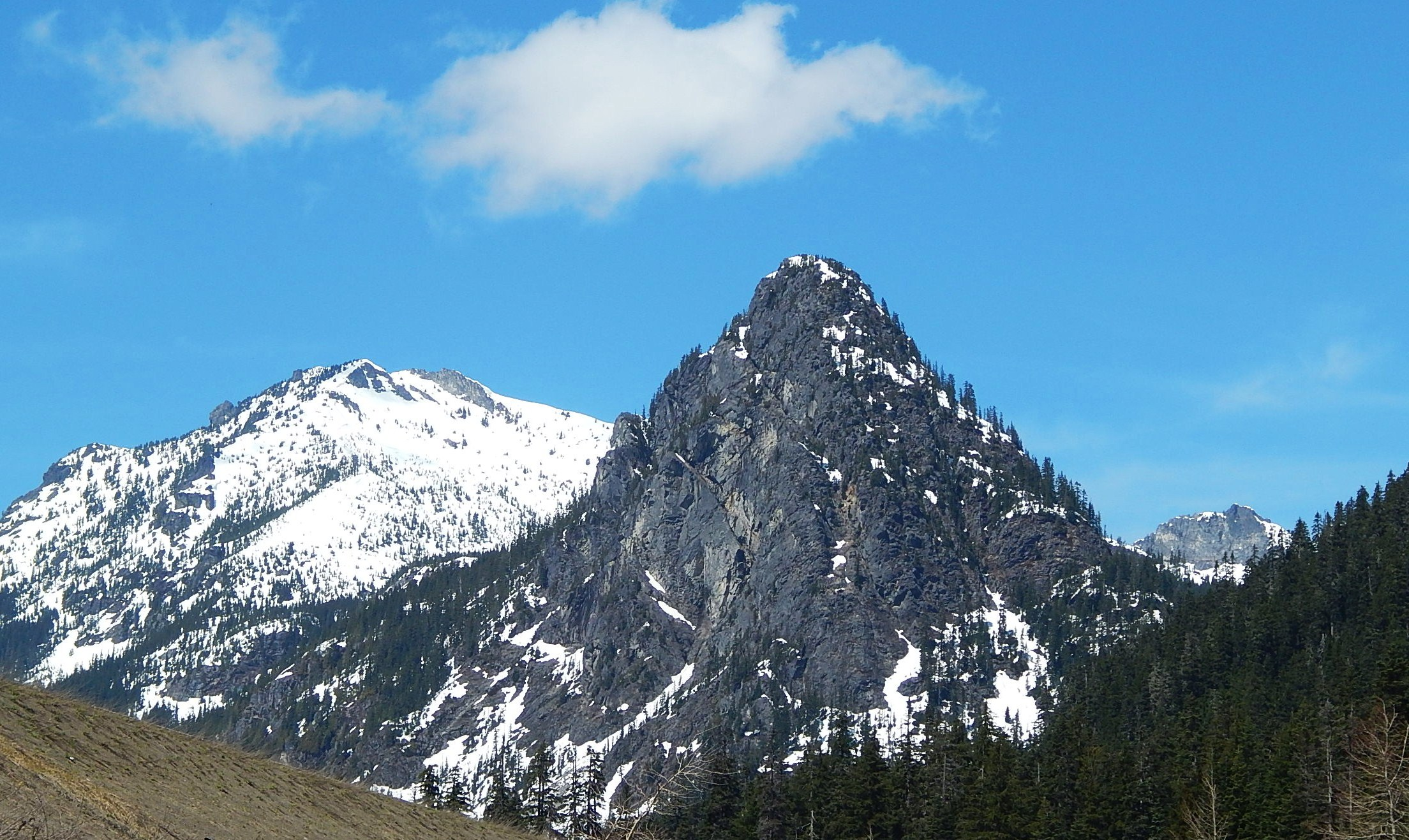 Guye Peak at Snoqualmie Pass, WA